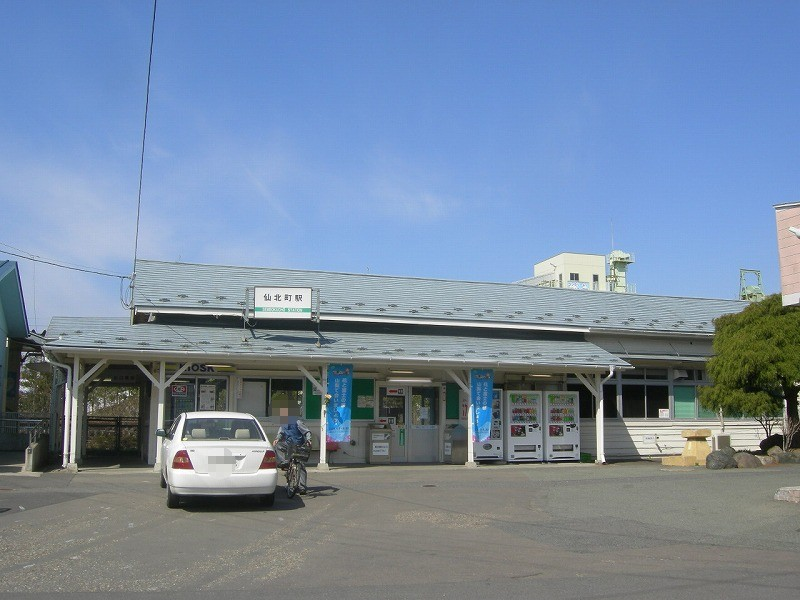 JR East Tohoku Main line Senbakucho station (Morioka,Iwate)